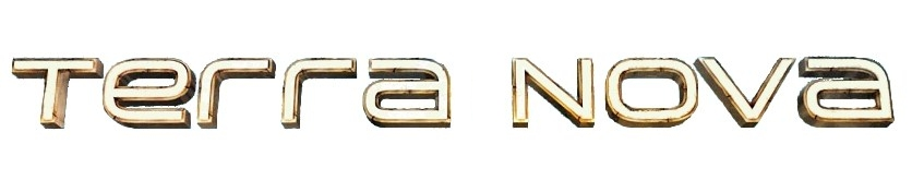 Logo from the television program Terra Nova